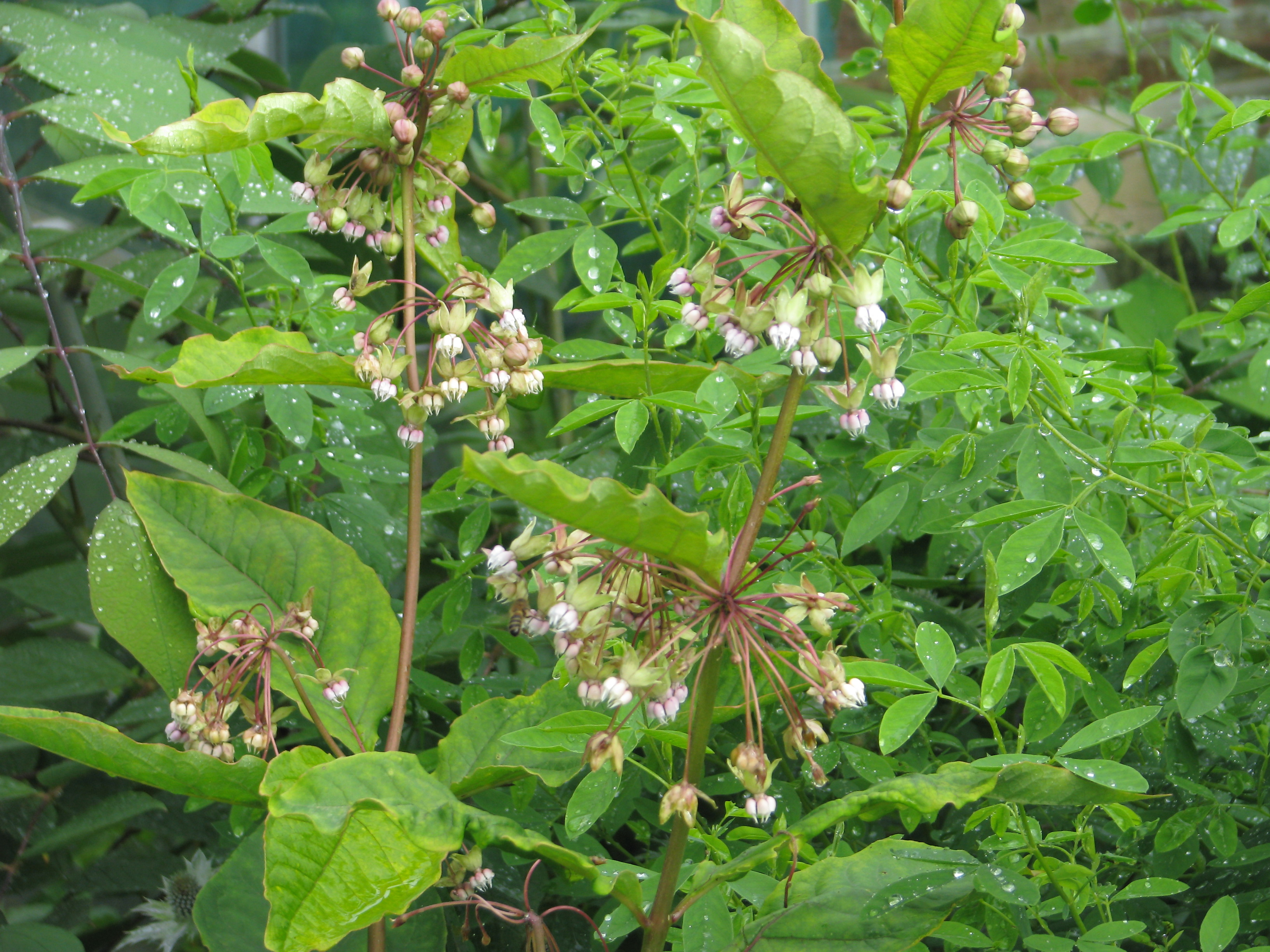 Asclepias exaltata L. - Poke milkweed